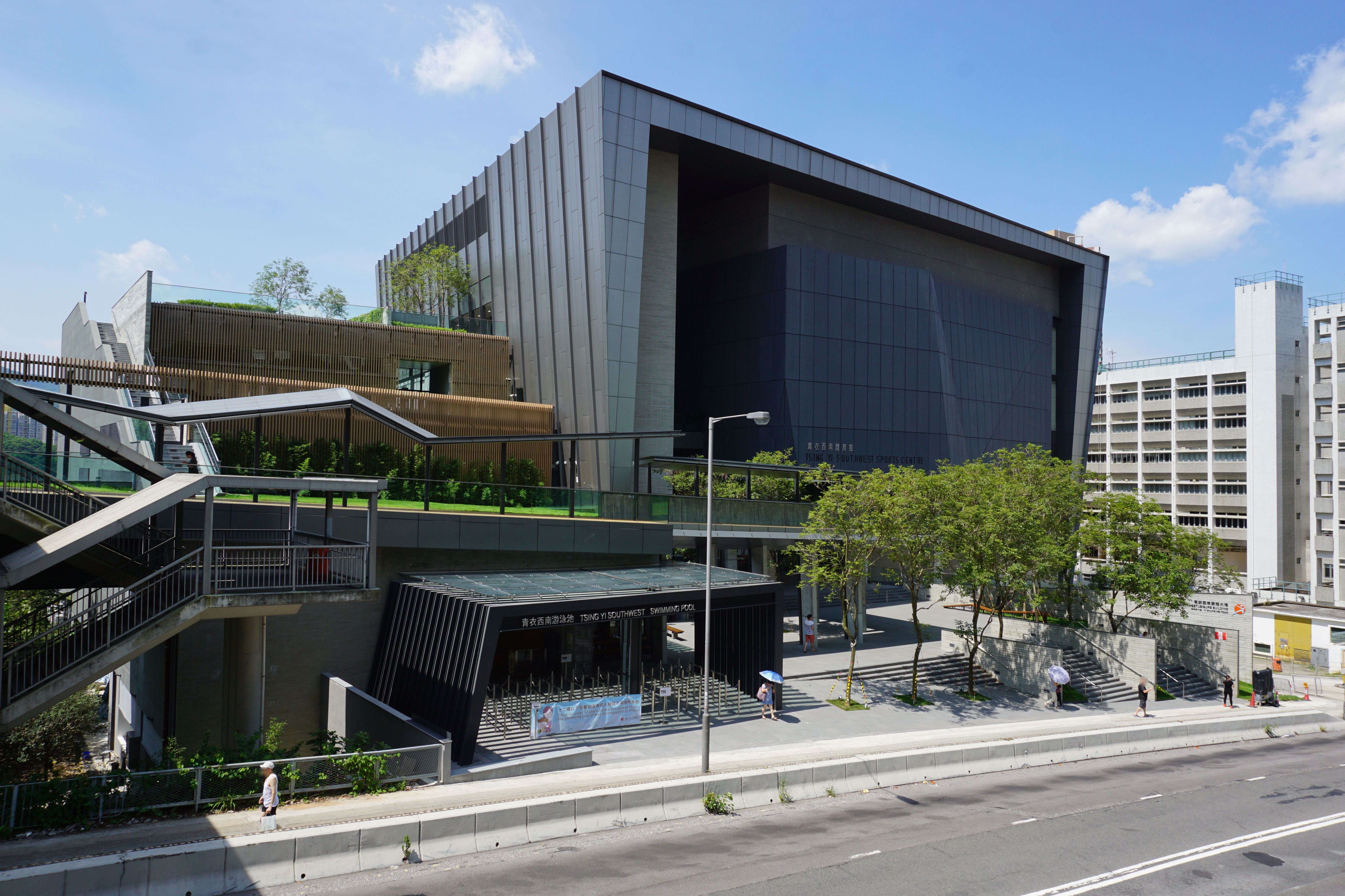 Southwest Leisure Building in Tsing Yi, Hong Kong.